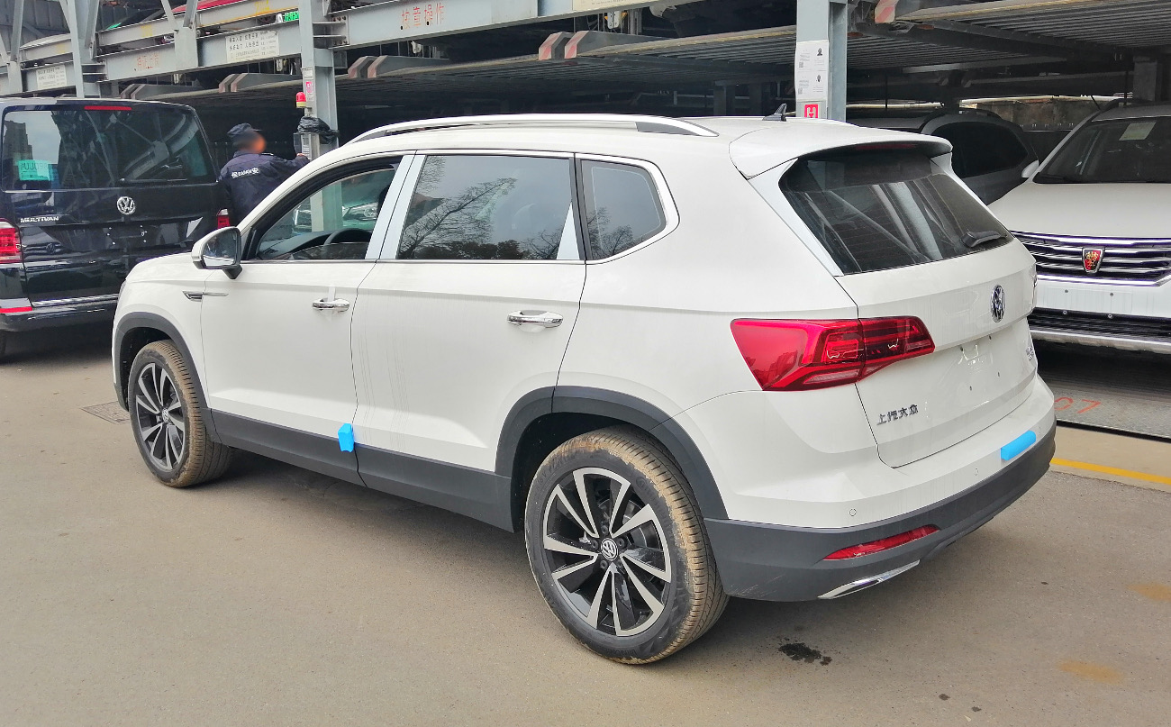 Volkswagen Tharu photographed in Shanghai, China.